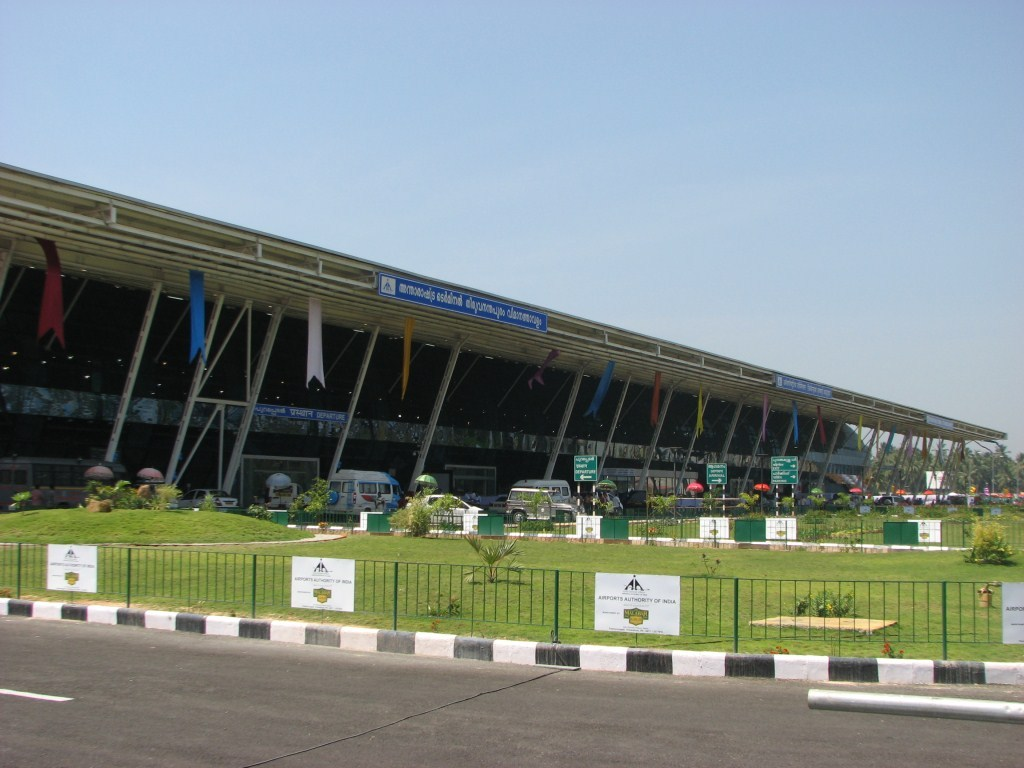 Trivandrum International airport International Terminal (Terminal 2), Kerala, India.